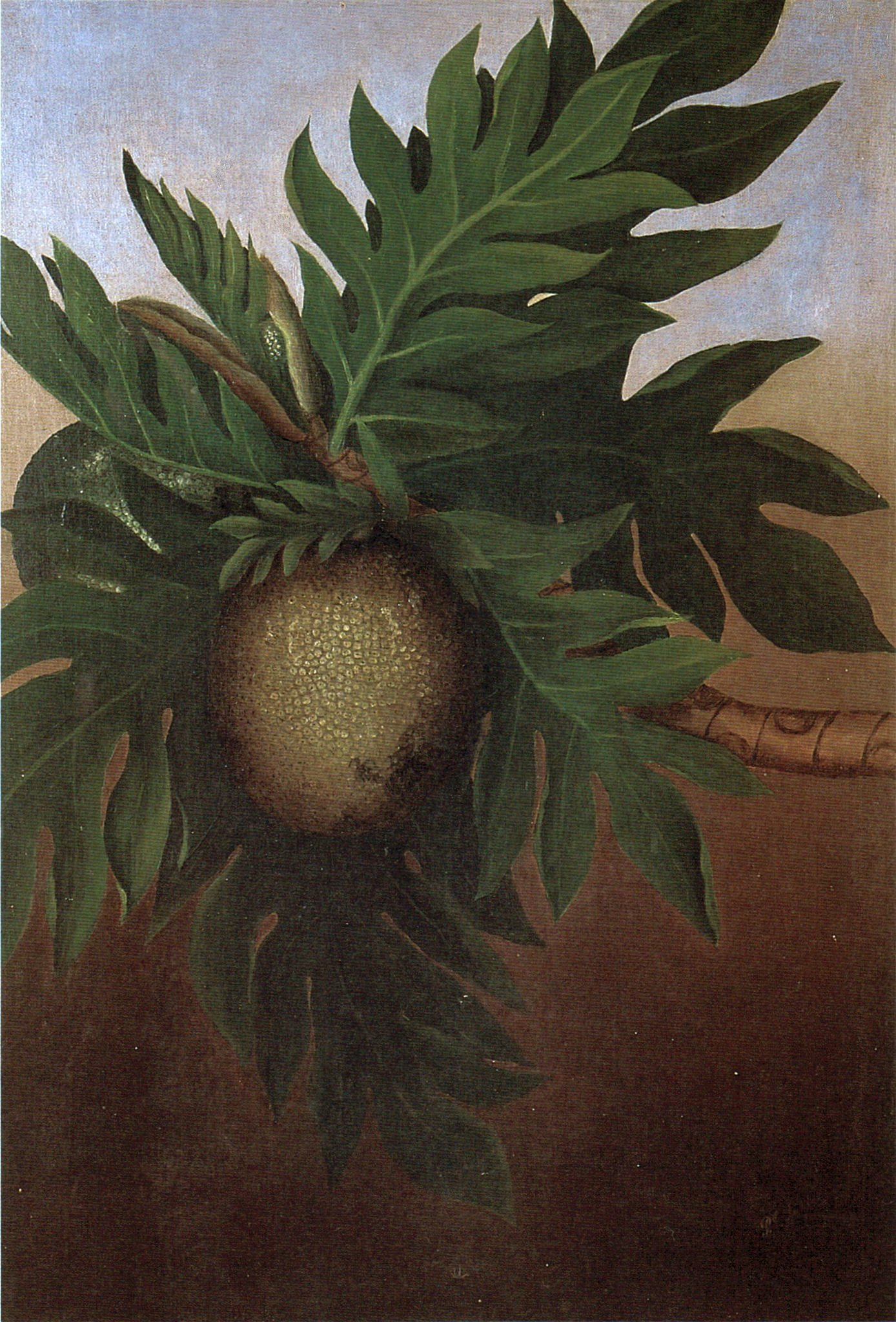 Hawaiian Breadfruit, oil on canvas painting by Persis Goodale Thurston Taylor, c. 1890